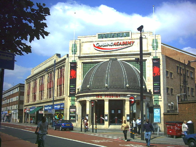 Brixton Academy, Stockwell Road (A203)